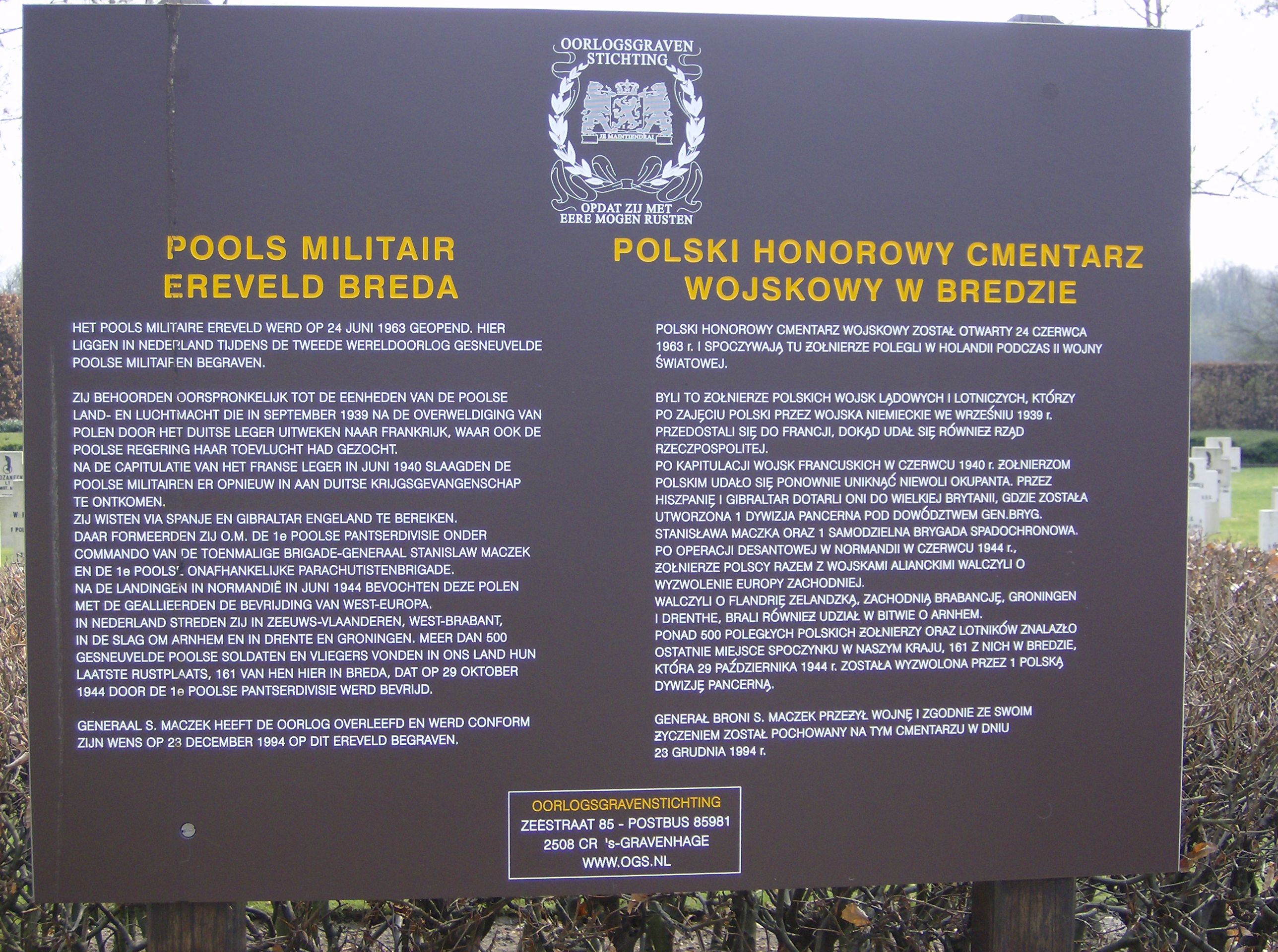 The information sign at the at the Polish military cemetery in Breda, the Netherlands